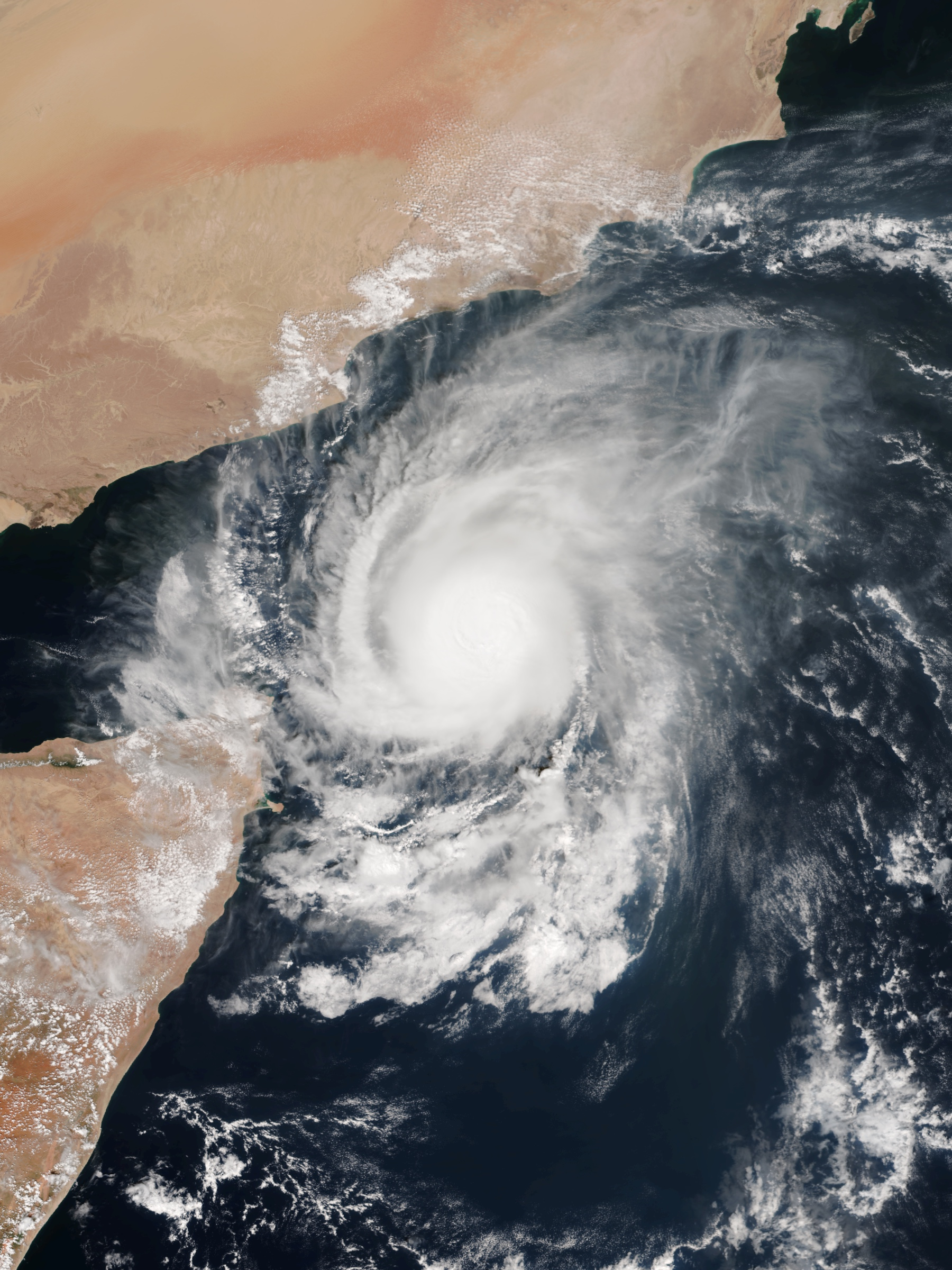 Extremely Severe Cyclonic Storm Megh on the island of Socotra on 8 November 2015, shortly after peak intensity.